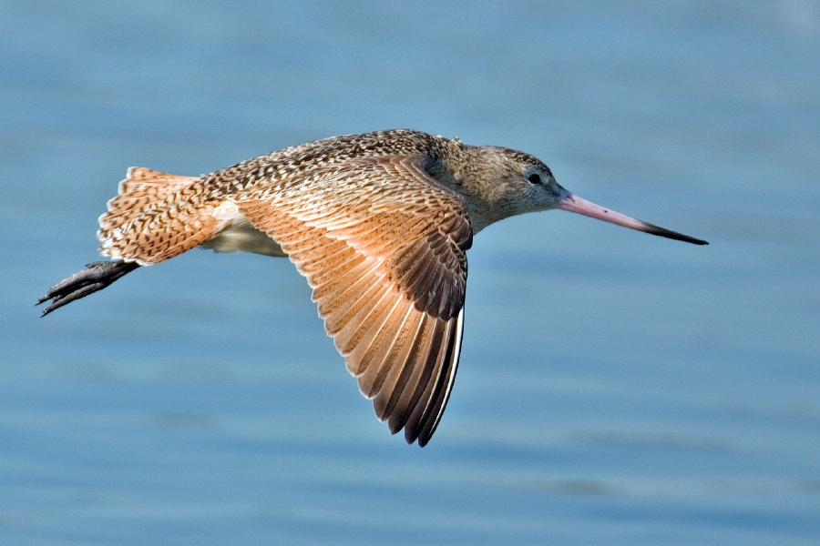 Limosa fedoa - Marbled Godwit, Upper Huntington Bay Ecological Reserve, Huntington Beach, California